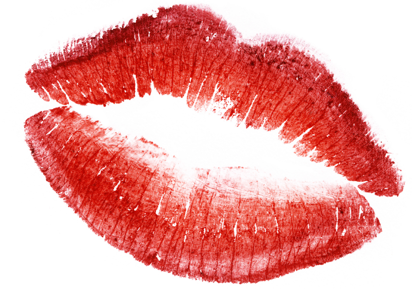 red lips isolated in white